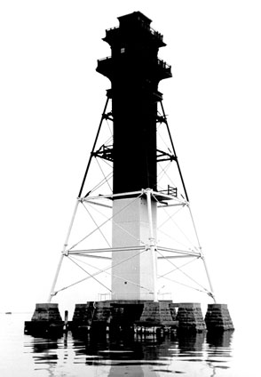 View of the Craighill Channel Lower Range Rear Light, Baltimore Harbor, Maryland. File converted to PNG format.